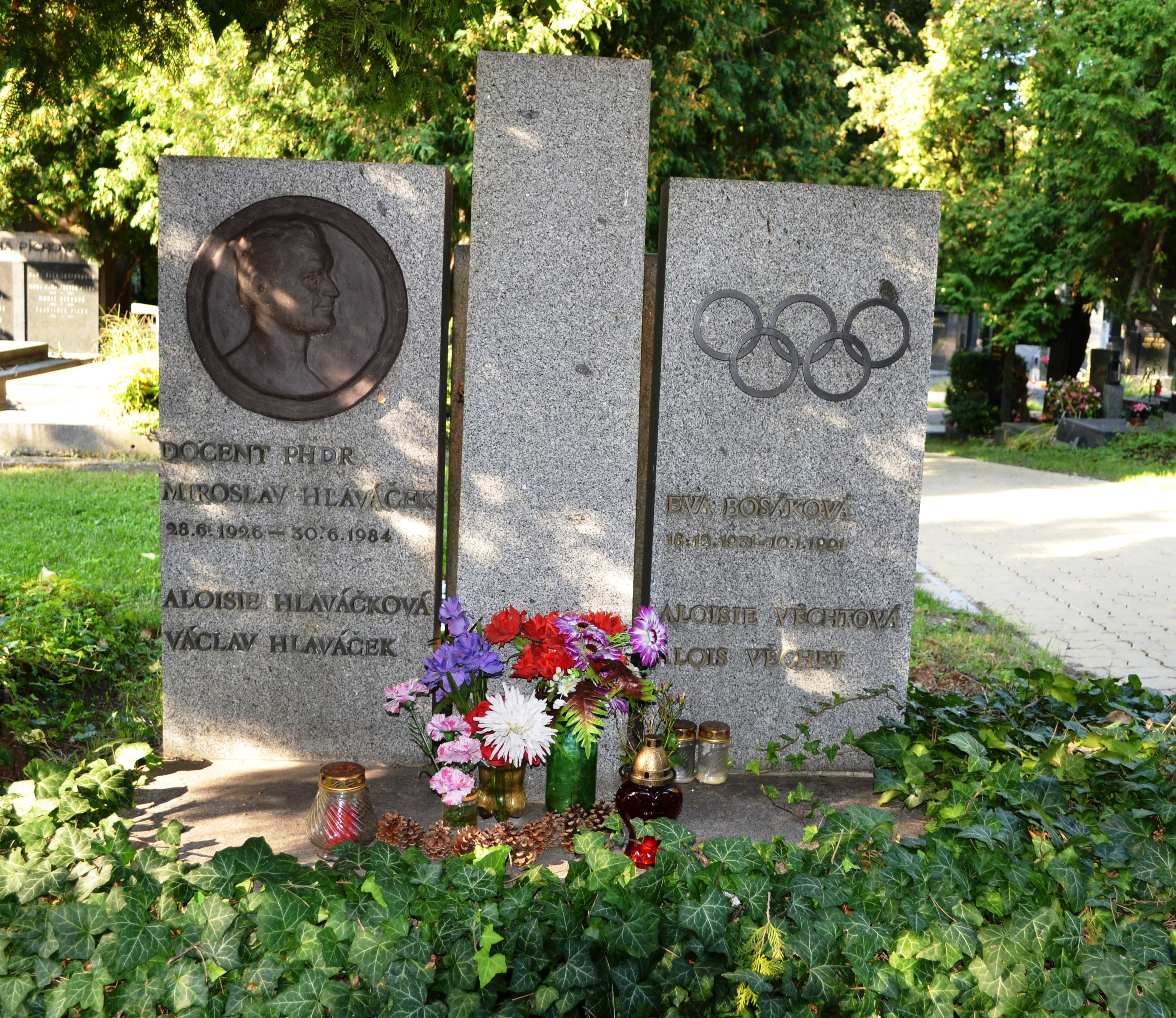 Tomb of Eva Bosáková, Czech gymnast, Olympic Winner, at Vinohrady Cemetery in Prague